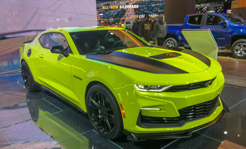 2019 North American International Auto Show (NAIAS) in Detroit Michigan